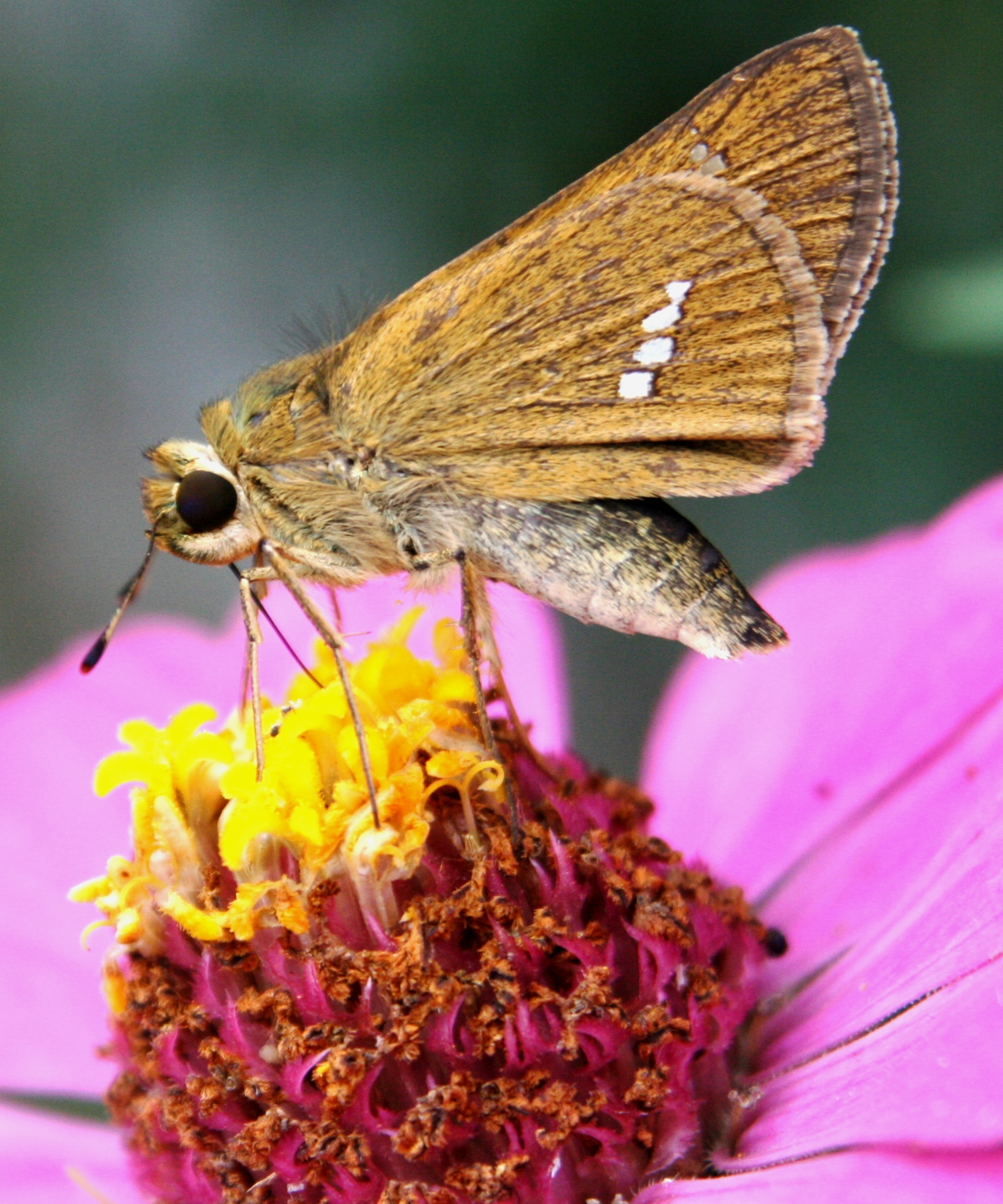 Parnara guttata and Zinnia violacea